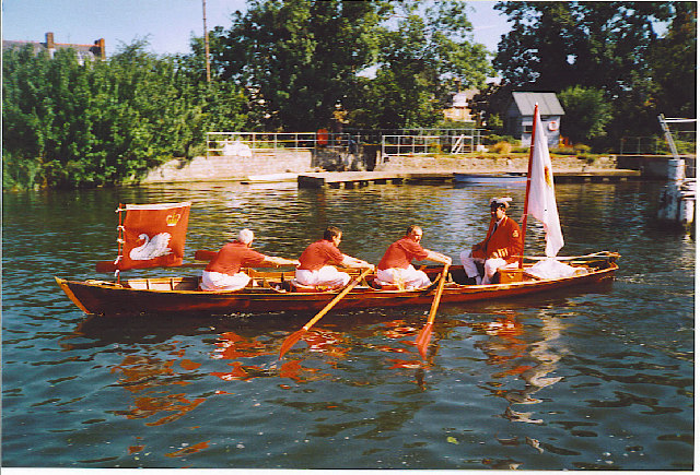 Swan Upping beginning at Sunbury Lock. Swan Marker and the Queen's boat leave the lock to start 5 days upstream, marking young swans on the Thames. The Dyers and the Vintners crew two other boats for the same purpose. Unmarked swans belong to the Crown, one nick on the beak and they belong to the Dyers, two nicks and the Vintners take ownership.